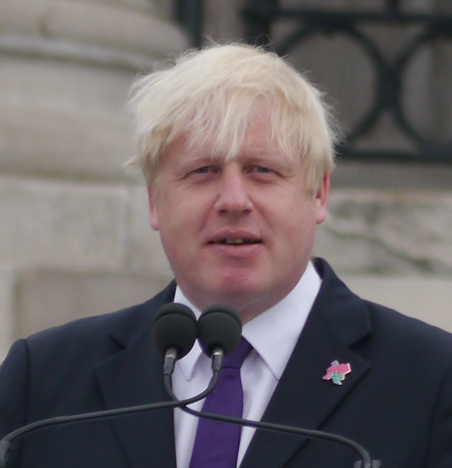 Boris Johnson, then Mayor of London, at the 2012 Paralympics Torch Relay. Cropped from File:Chris_Holmes_and_Boris_Johnson.jpg .